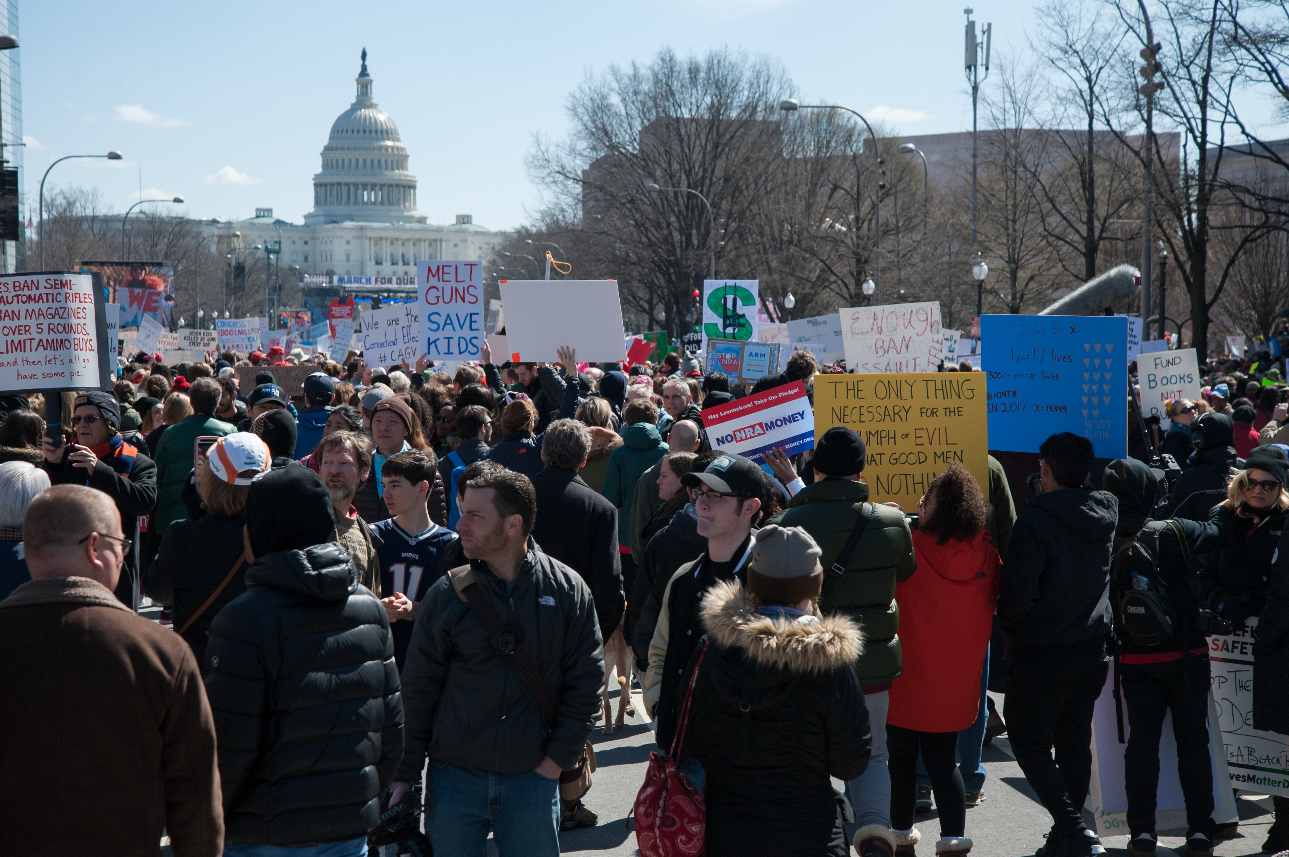 Demonstrators at the 2018 March For Our Lives in Washington DC.